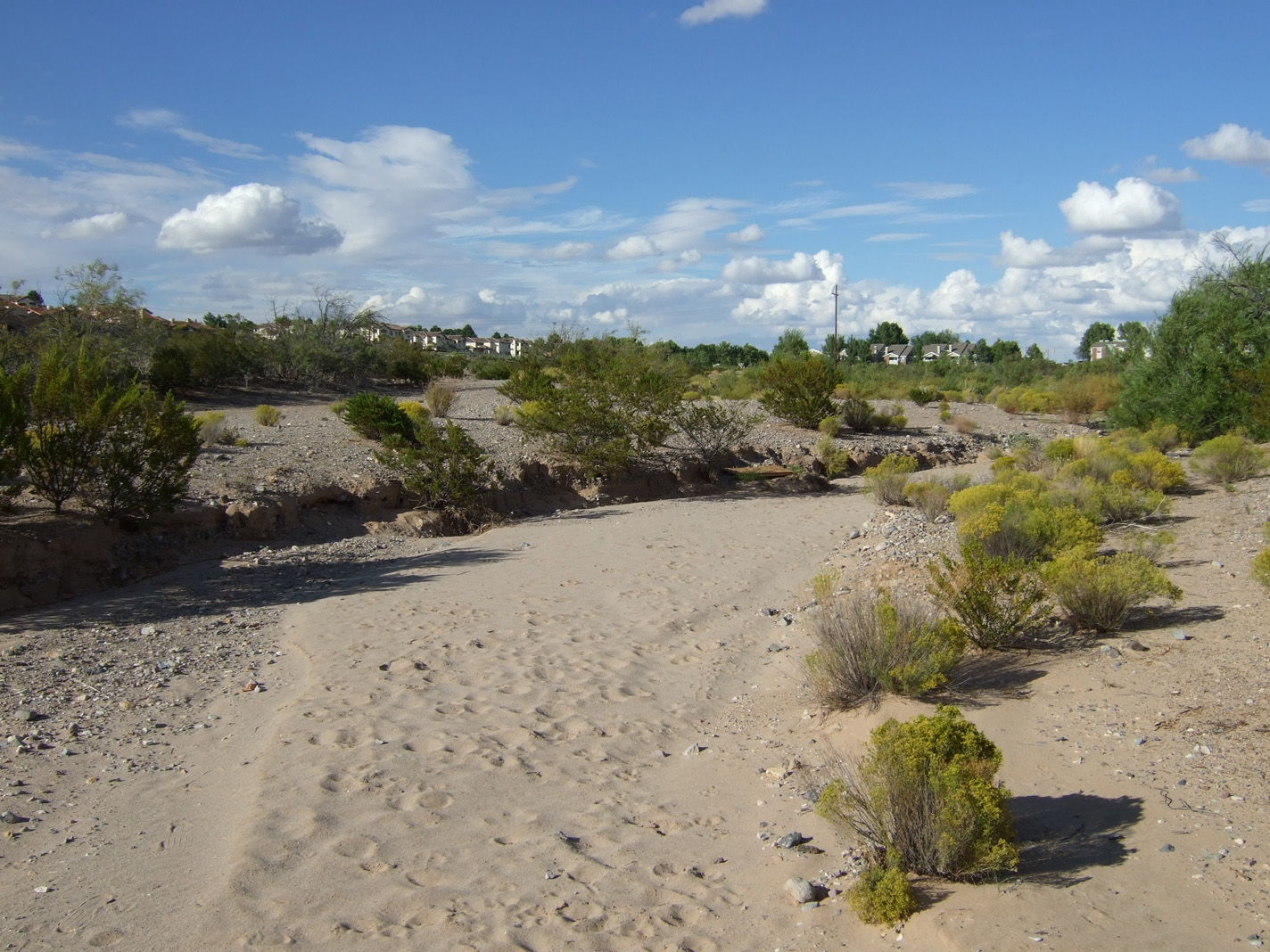 Neil Rhodes, Las Cruces Arroyo North Fork looking east